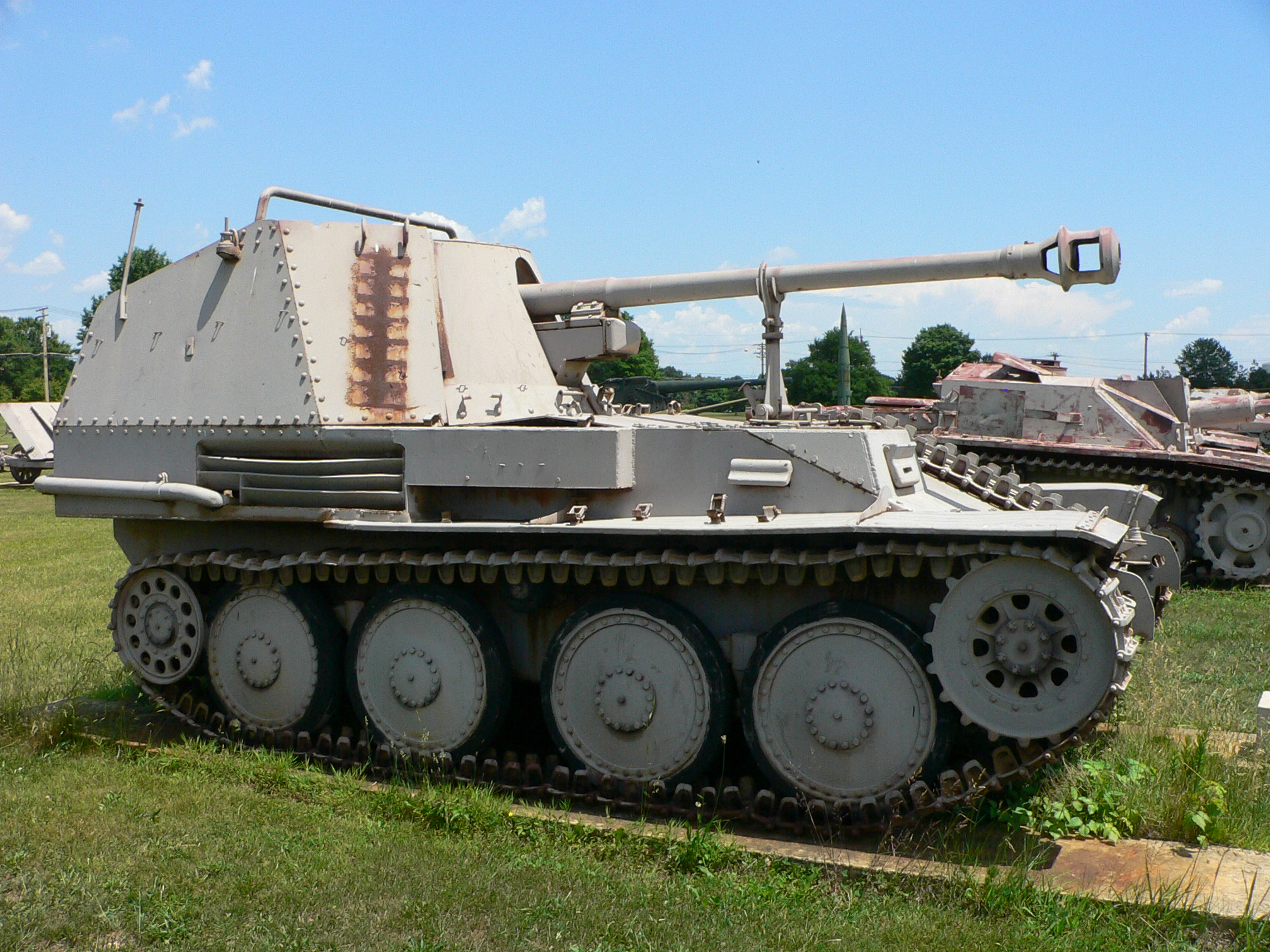 Picture taken by myself, Mark Pellegrini, at the United States Army Ordnance Museum (Aberdeen Proving Ground, MD) on June 12, 2007.